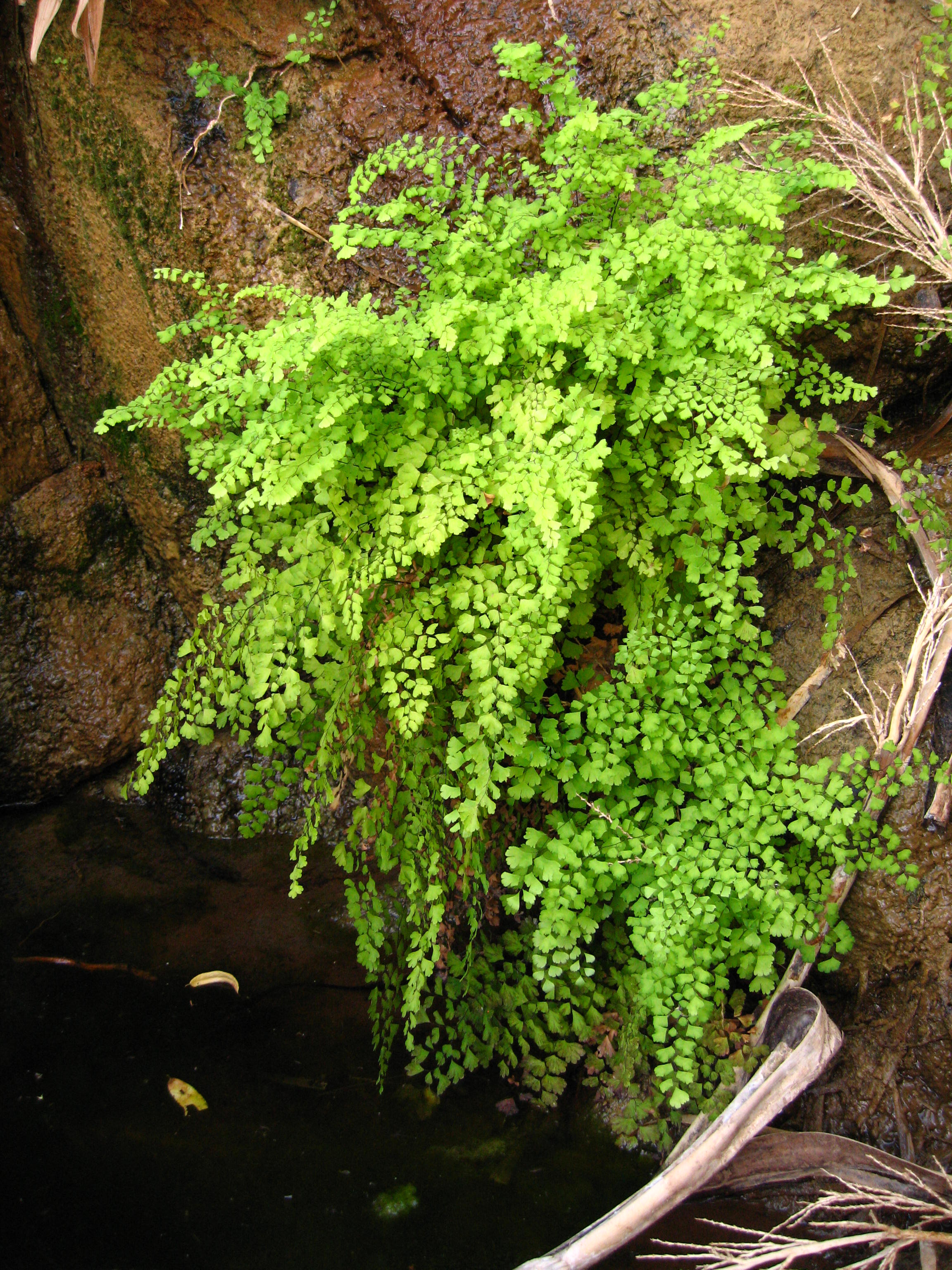 Flora of Joshua Tree National Park: Common maidenhair (Adiantum capillus-veneris).